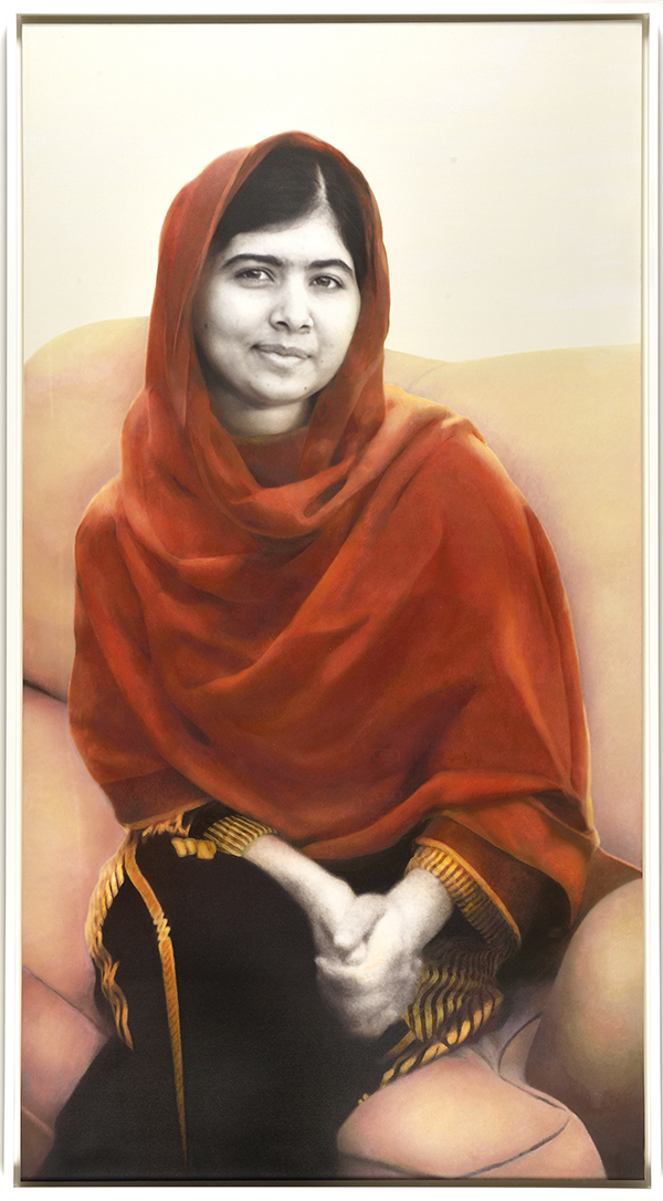 In 2015, British contemporary artist Nasser Azam was commissioned to paint the Official Portrait of the youngest ever Nobel Prize laureate, Malala Yousafzai.